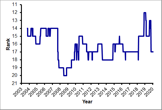 IRB World Rankings from